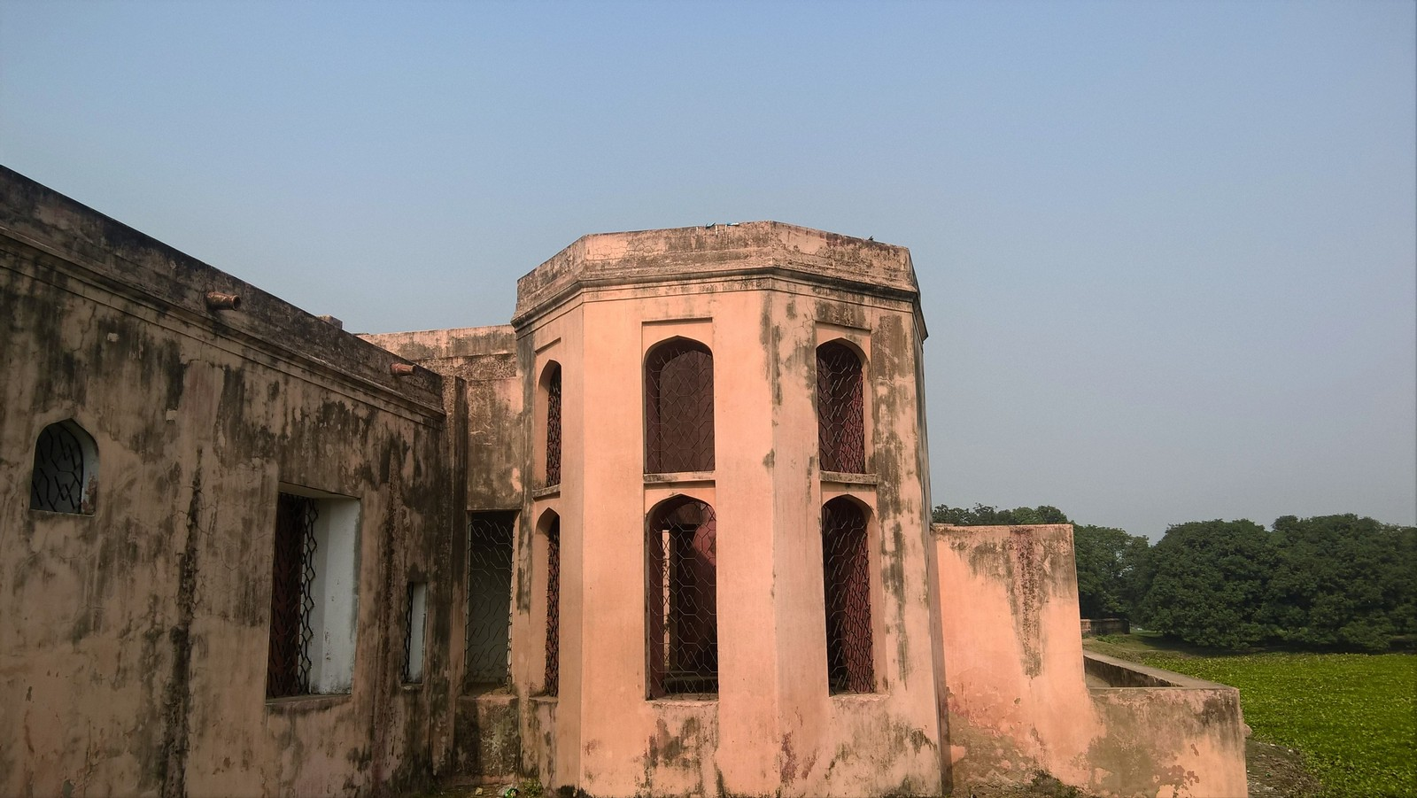 TohaKhana, a complex including a hammamkhana, a three domed mosque and the tomb of Shah Neamotullah Wali, Dharash Bari Mosque & Dharash Bari Madrasa.